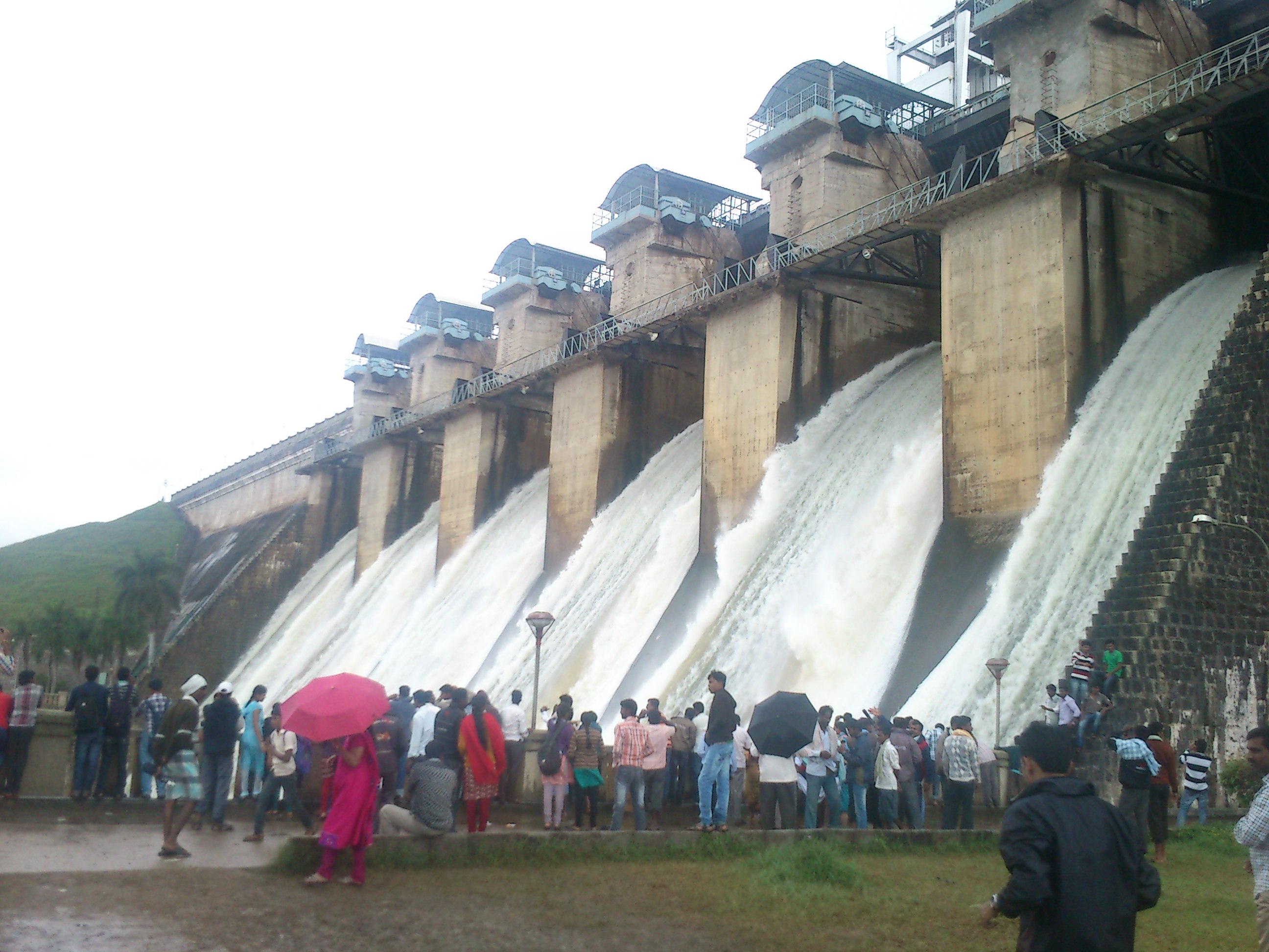 Crest gates opened at Gorur Dam, Hassan